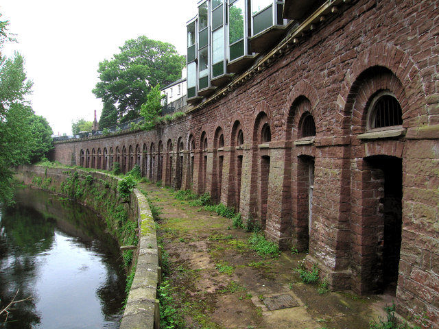 Monmouth's old Slaughter Houses I bet that not many people who visit the Tourist Information Centre know what is under their feet! These old slaughter houses have remained derelict since the sixties and now seem to be haunt of the local youth of Monmouth. The local council are considering a feasibility study to see what use they now could be put to.